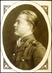 Major George De Carteret Millias died of wounds in August 1918)